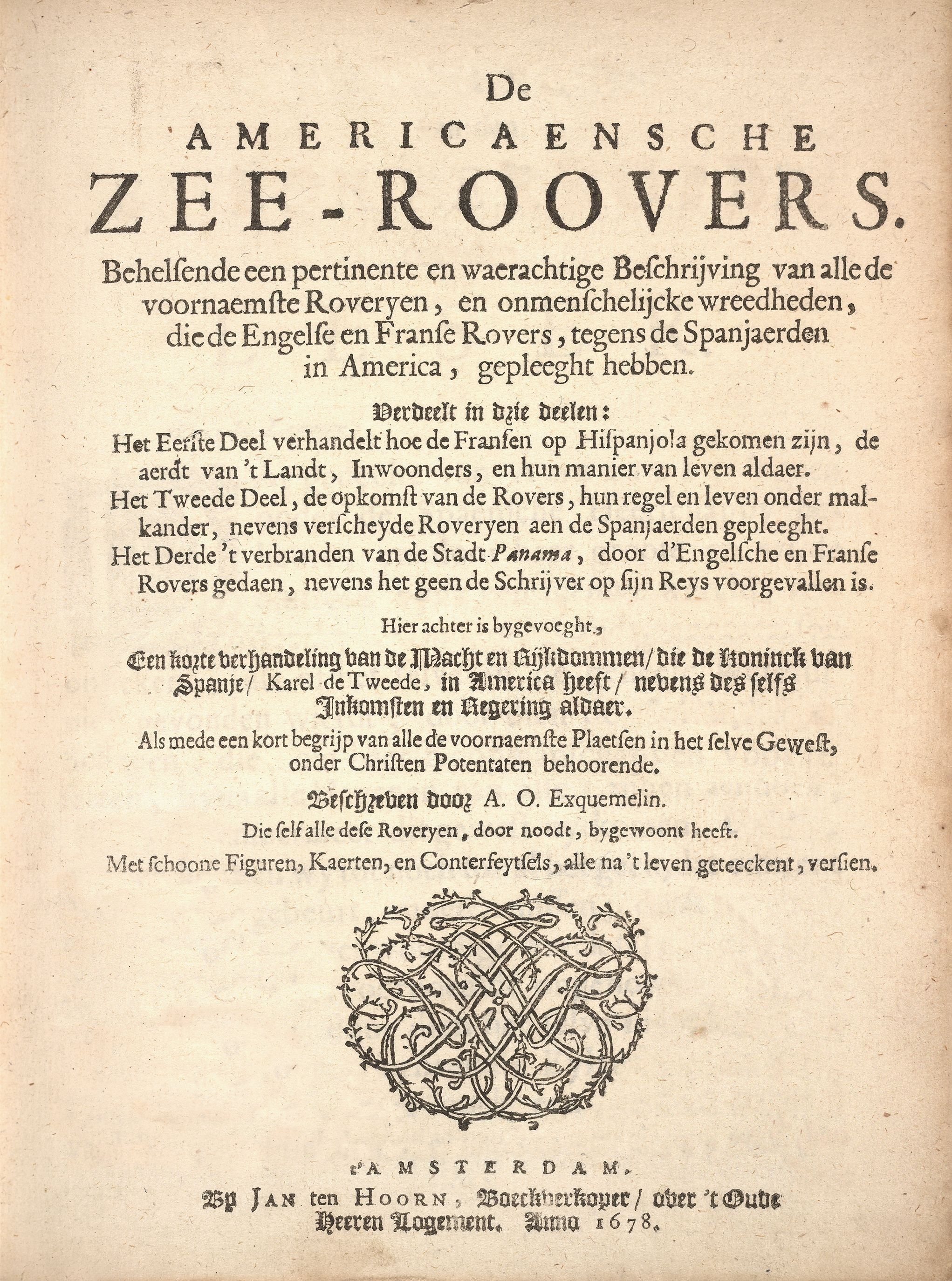 Page number 3 of The Buccaneers of America